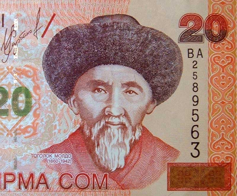 Description: Togolok Moldo, Kyrgyz poet, as featured on the Kyrgyz 20 som note. Source: Image taken by hux. Date: Nov 26, 2006. Permission: Not required - public domain (see below)